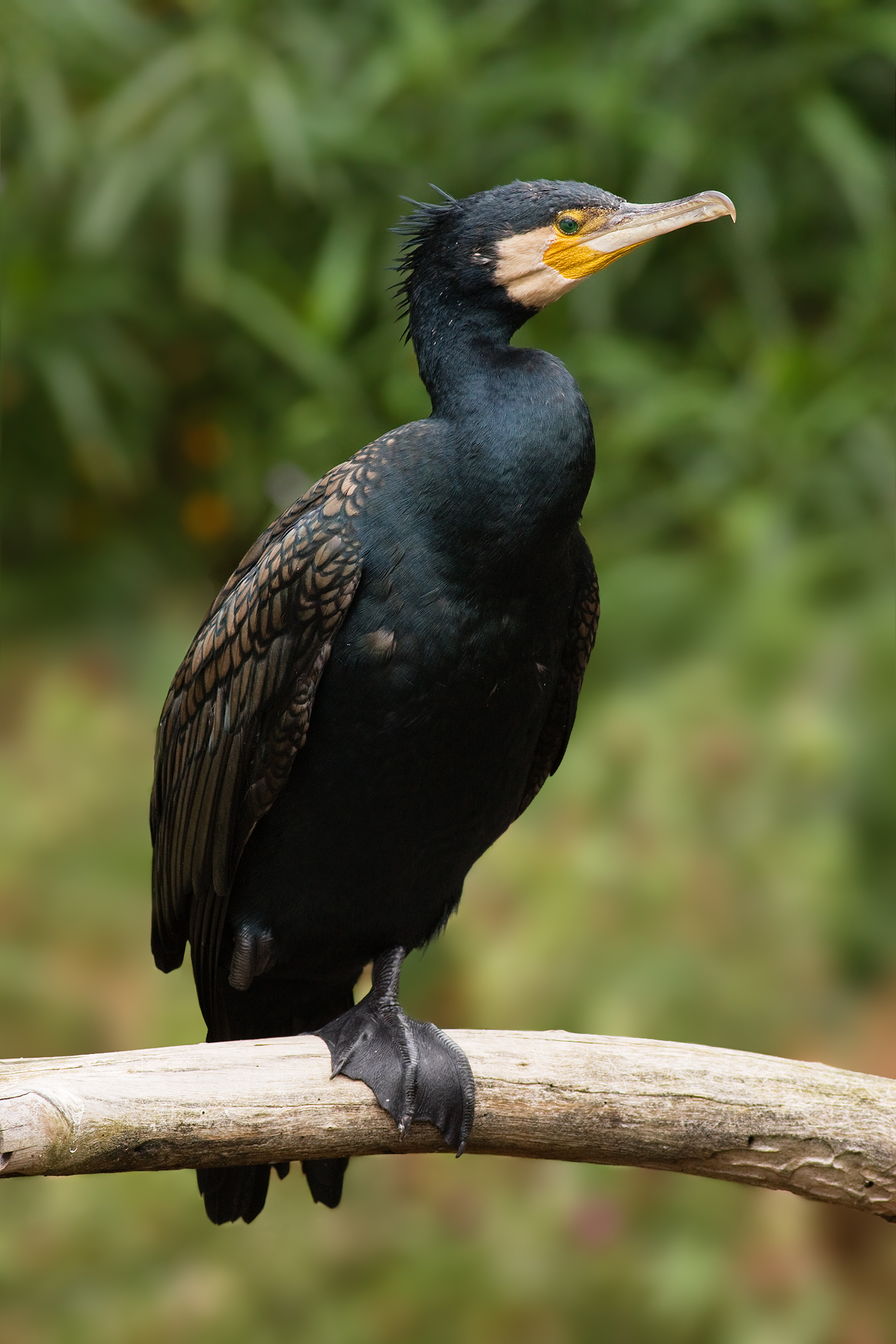 Great Cormorant (Phalacrocorax carbo), Victoria, Australia.